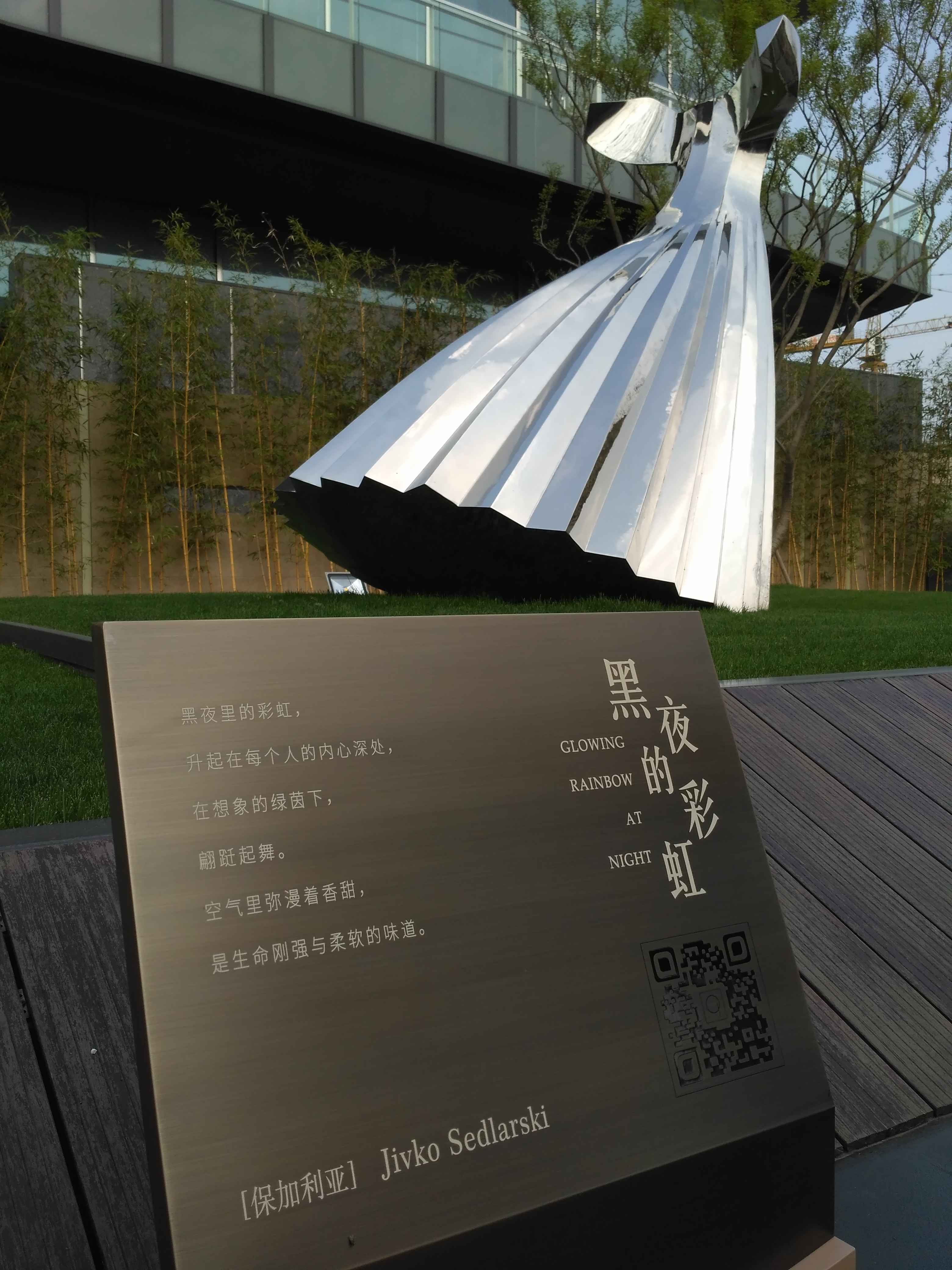 Rainbow In The Dark, China